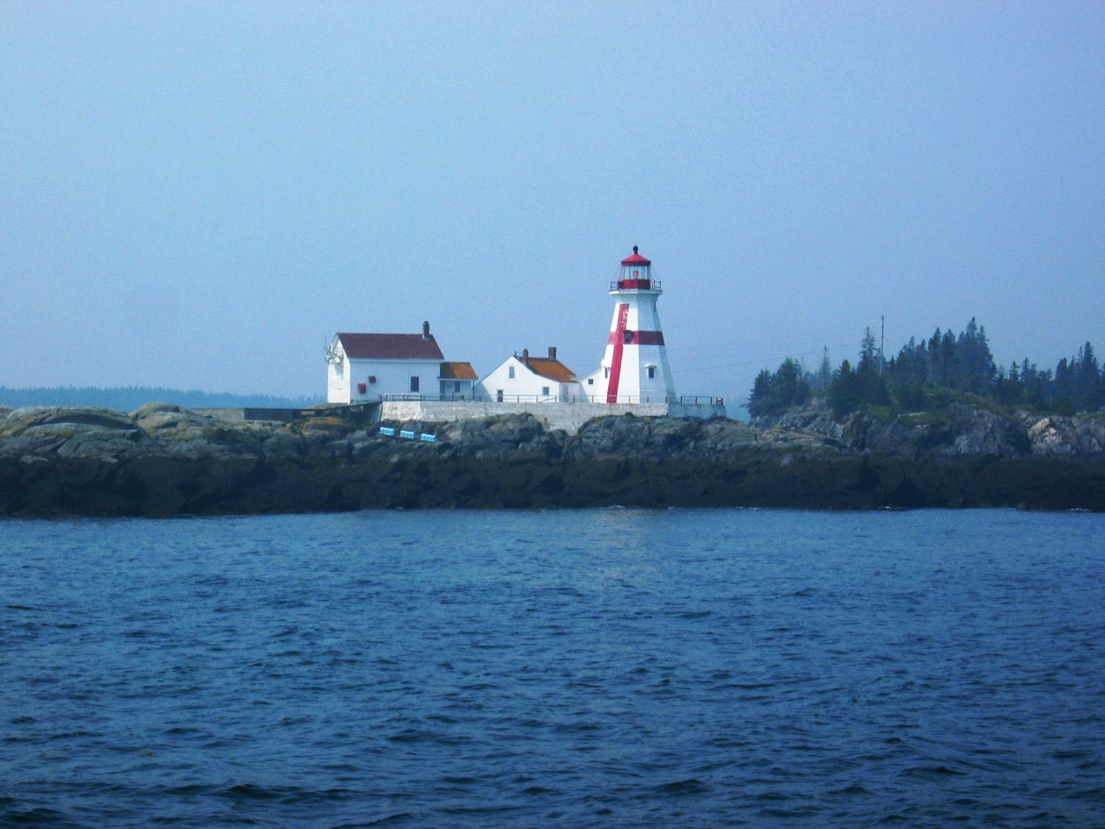 Lighthouse on Campobello Island, New Brunswick, Canada.